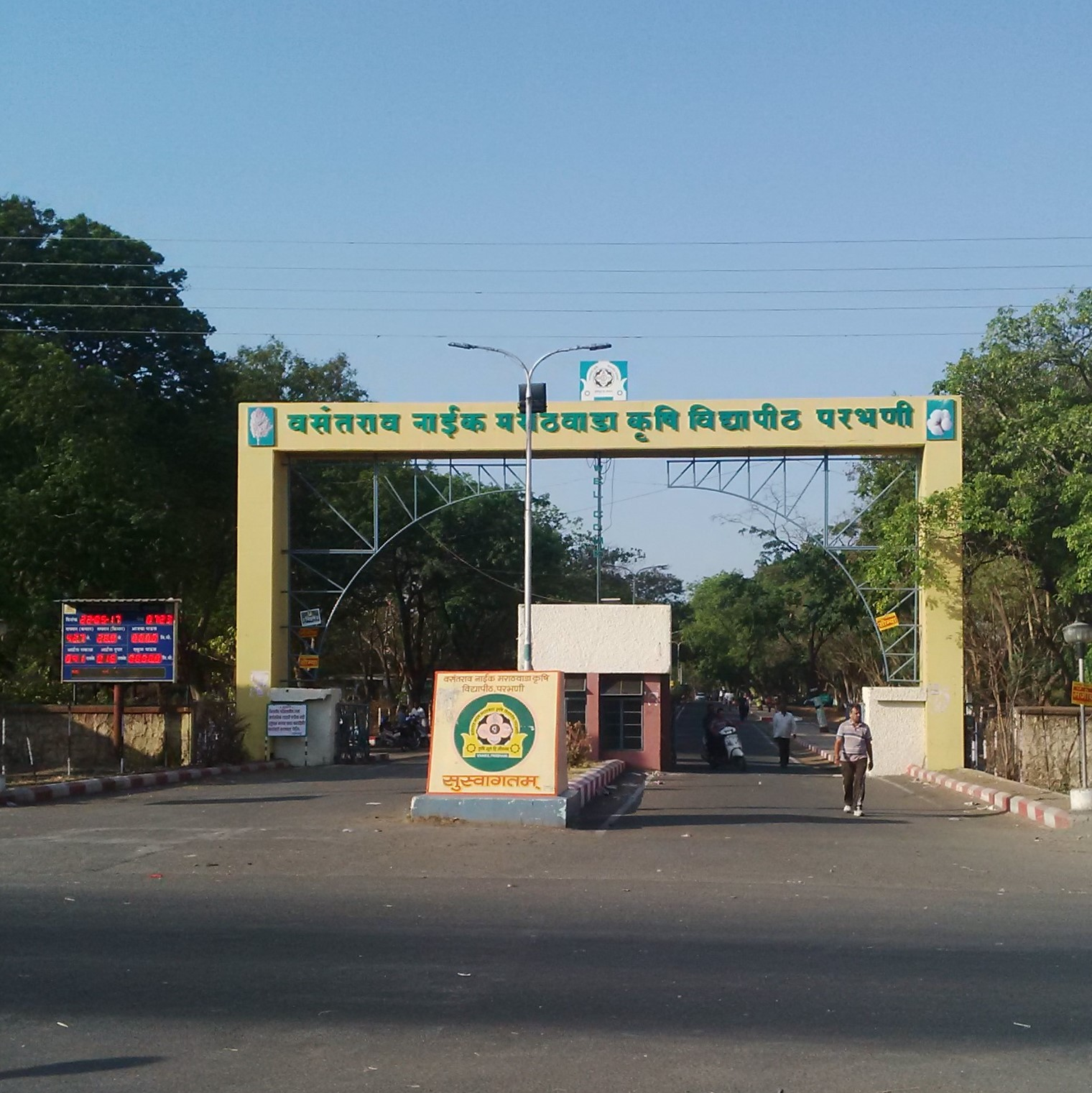 Main entrance of Marathwada Agriculture University, Parbhani, Maharashtra. Cropped, and rotated from file at File:University gate Parbhani 1.jpg